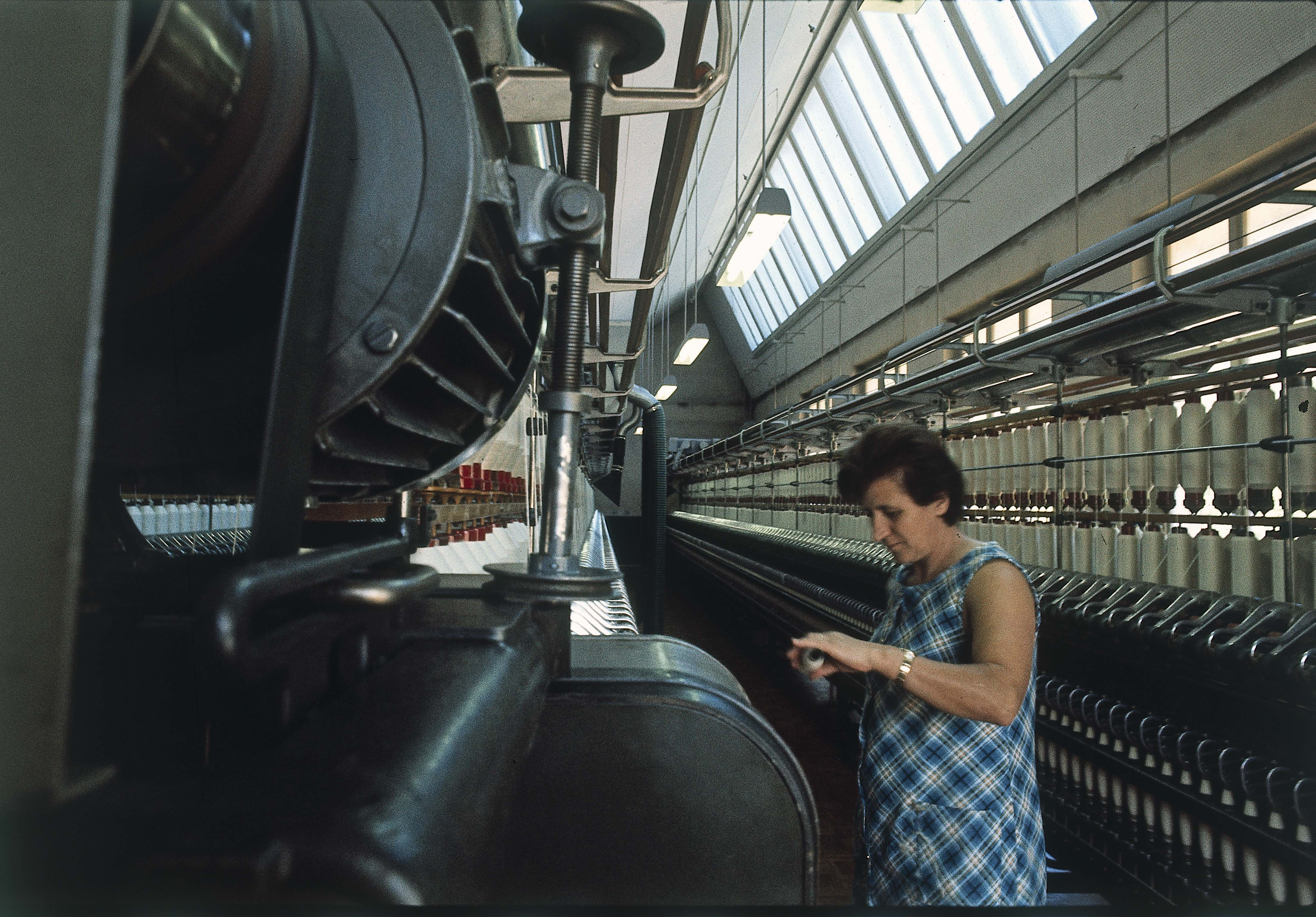 Ringmaschine